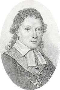 Gustaf Murray (1747-1825)